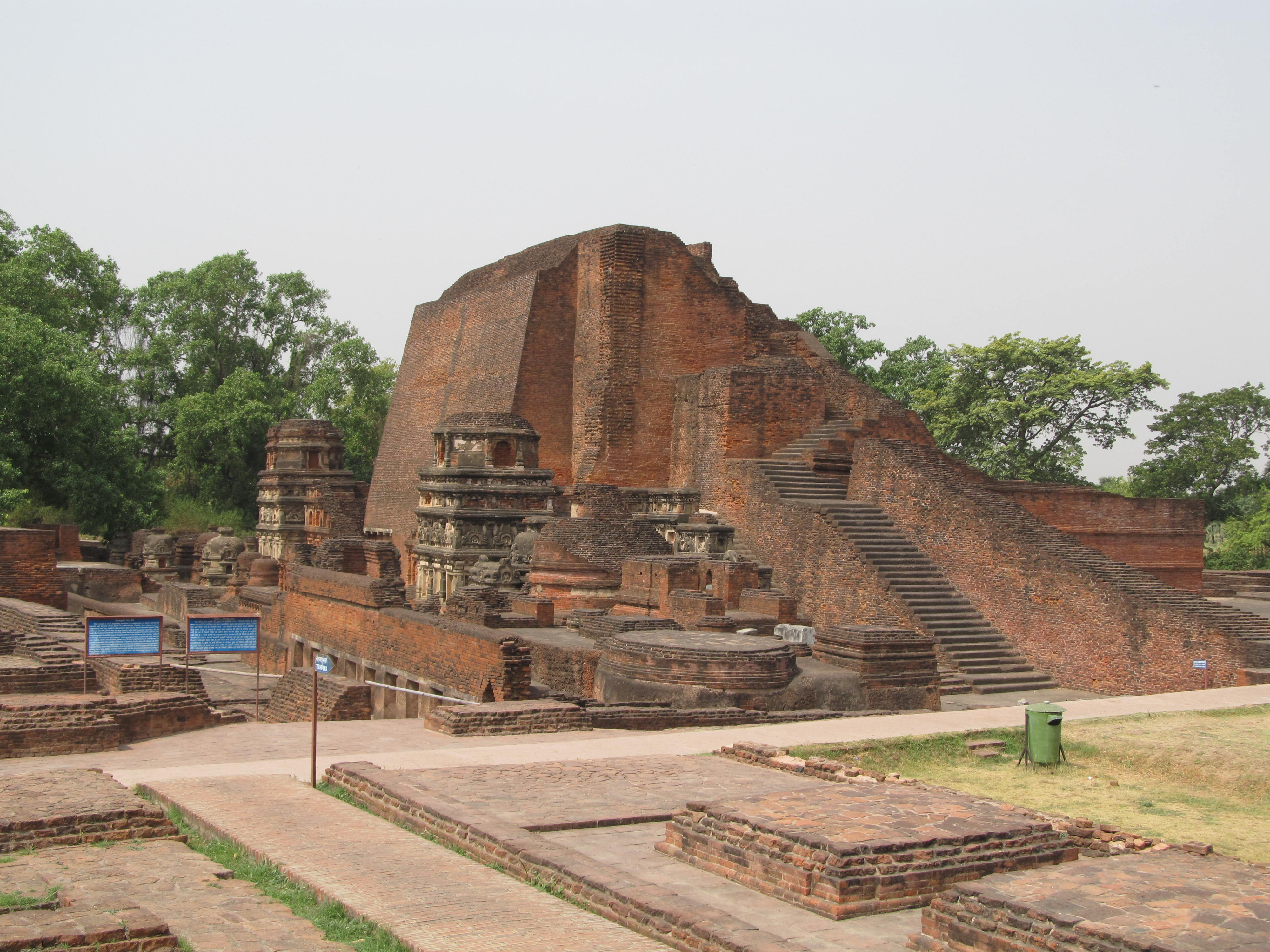 This photo shows the ruins of world's first university, Nalanda University situated in Nalanda district of Bihar, India.